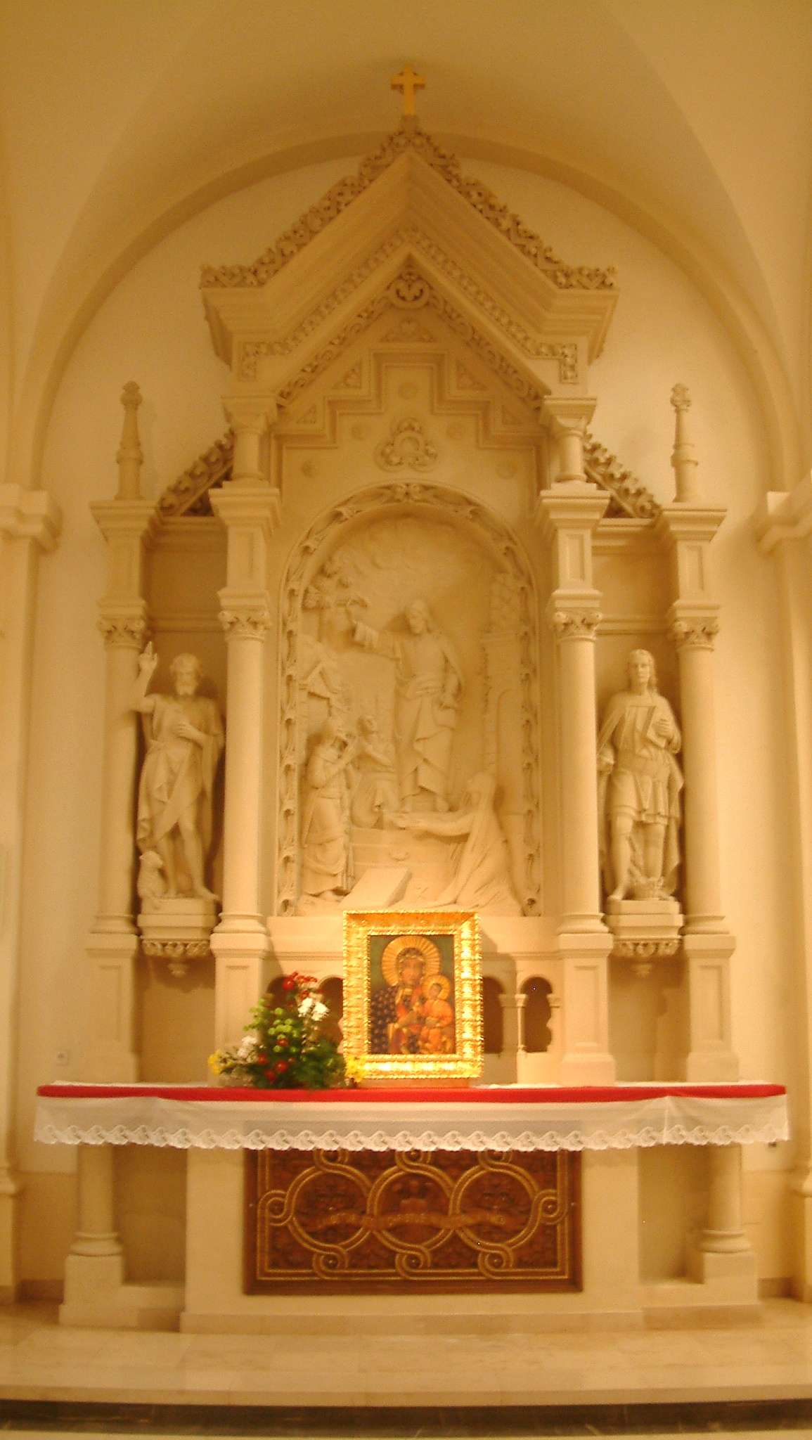 Church of Mother of Sorrow in Poznań, Altar of St. Lazarus